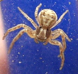 Xysticus cristatus (body length ca. 3mm) from a meadow bordering a forest in Nettersheim, Germany. Wikispecies has an entry on: Xysticus cristatus